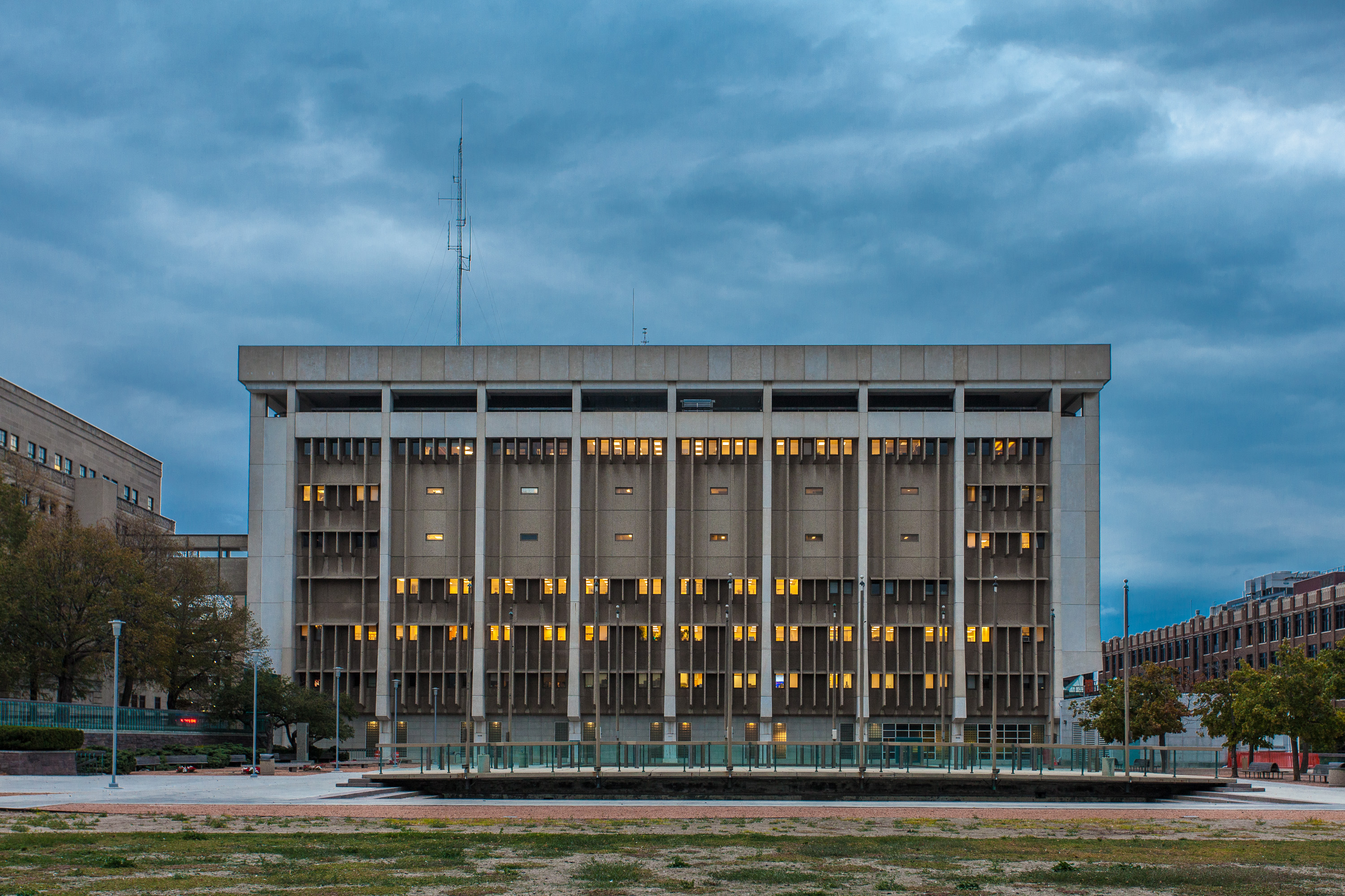 Rear of the Milwaukee Police Department building, viewed from MacArthur Park. Milwaukee, Wisconsin